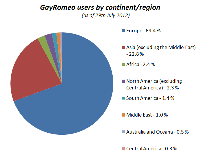 image has a pie chart showing distribution of users by continent/region.